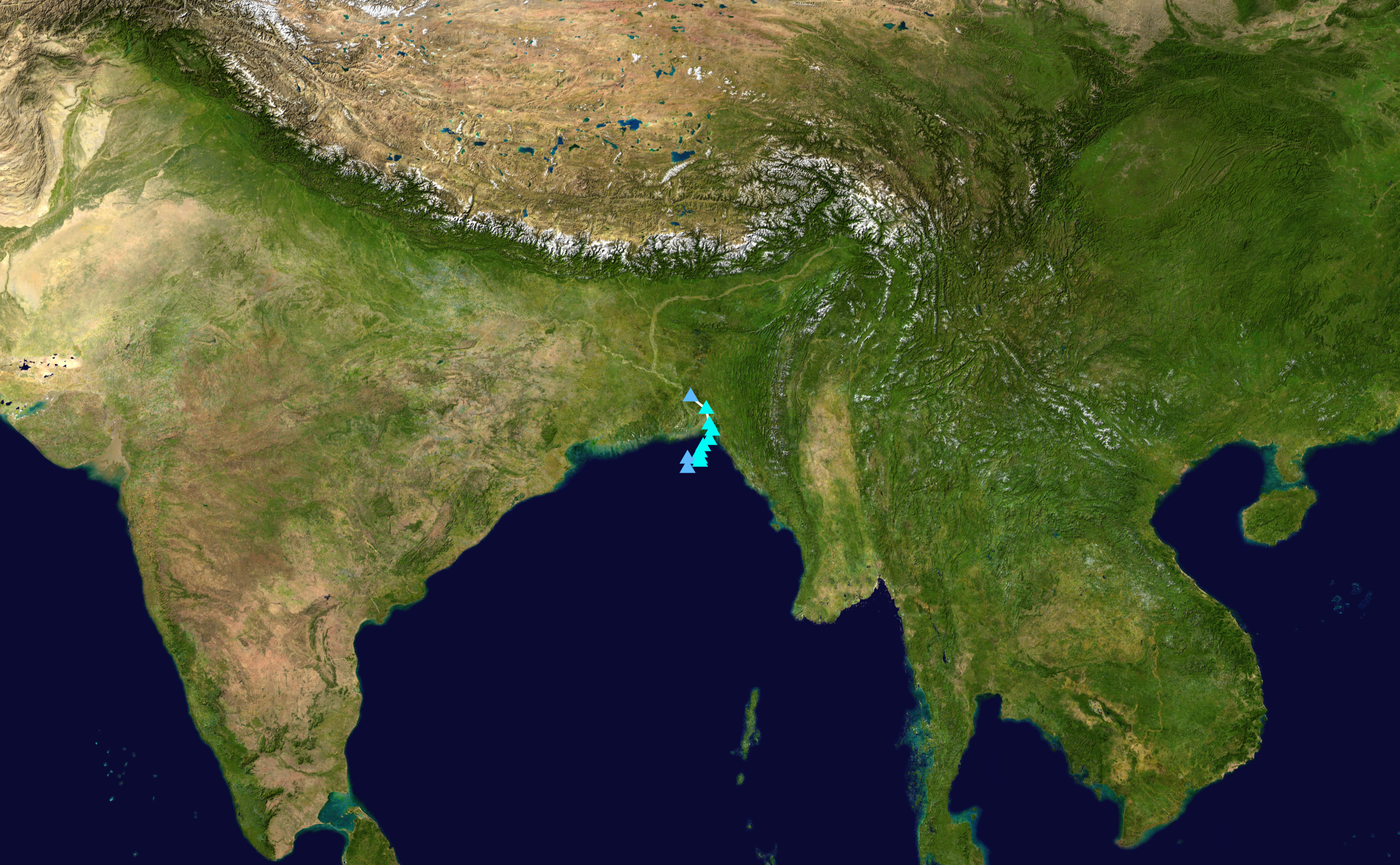 Track map of Cyclonic Storm Komen of the 2015 North Indian Ocean cyclone season. The points show the location of the storm at 6-hour intervals. The colour represents the storm's maximum sustained wind speeds as classified in the Saffir–Simpson scale (see below), and the shape of the data points represent the nature of the storm, according to the legend below. Saffir–Simpson scale Tropical depression≤38 mph≤62 km/h Category 3111–129 mph178–208 km/h Tropical storm39–73 mph63–118 km/h Category 4130–156 mph209–251 km/h Category 174–95 mph119–153 km/h Category 5≥157 mph≥252 km/h Category 296–110 mph154–177 km/h Unknown Storm type Tropical cyclone Subtropical cyclone Extratropical cyclone / Remnant low / Tropical disturbance / Monsoon depression